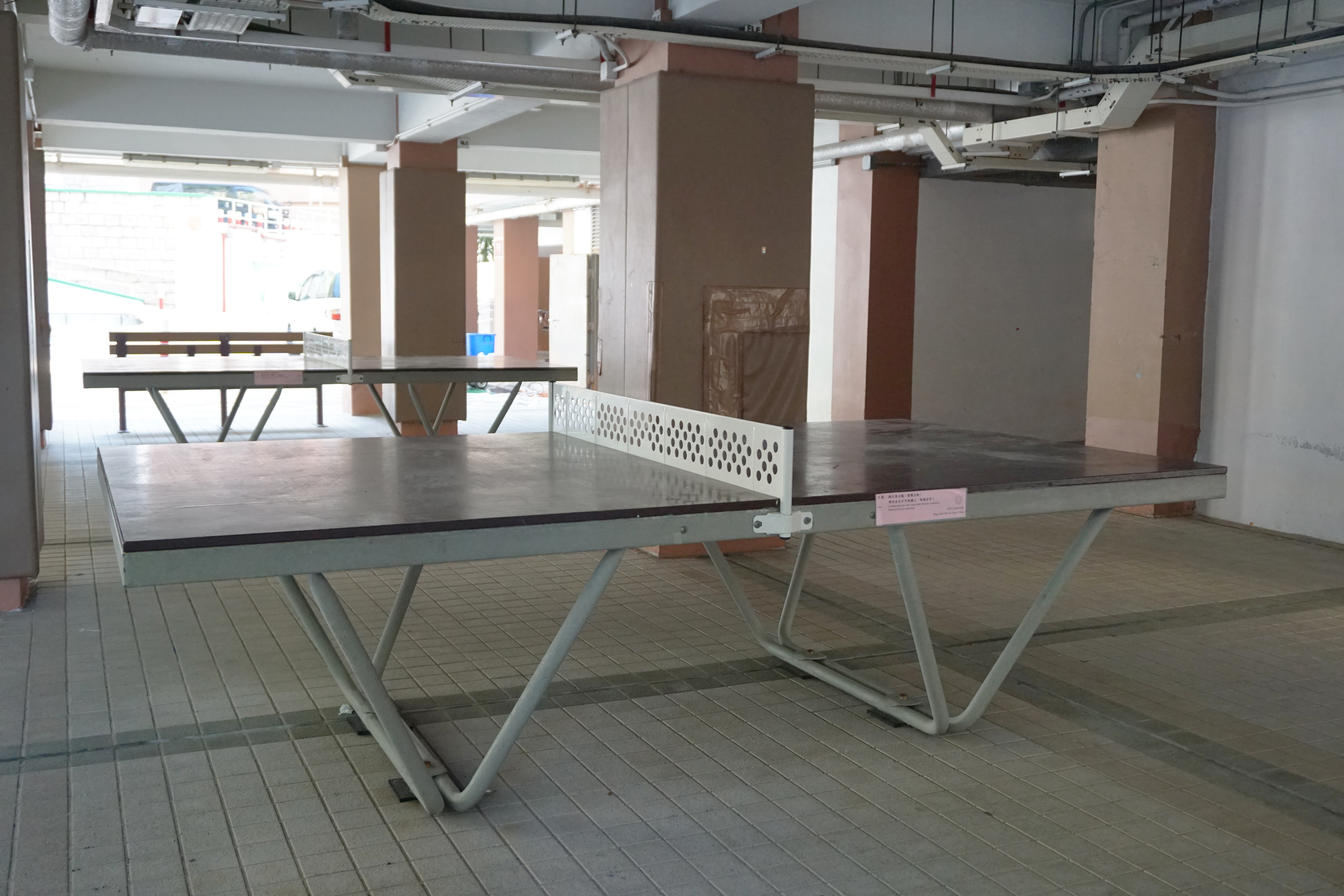 Ming Wah Dai Ha in Shau Kei Wan, Hong Kong.